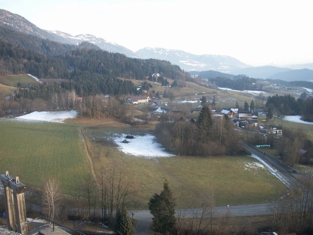 Millstätter Berg near lake Millstatt (illstätter See) / Spittal an der Drau / Carinthia / Austria / EU.